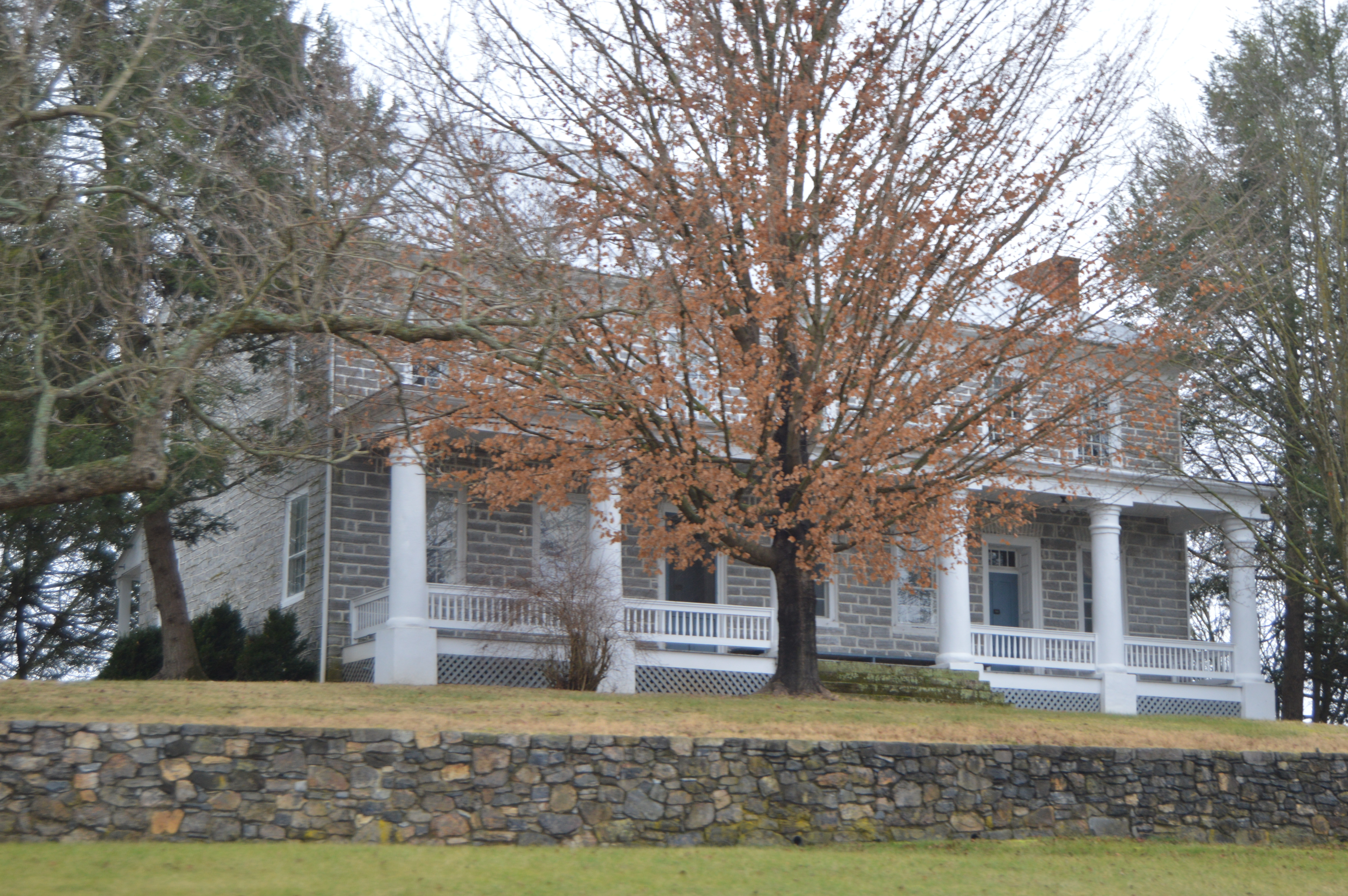 Front and eastern side of the Henry Miller House, located on State Route 42 at Mossy Creek in Augusta County, Virginia, United States. Built in 1785, it is listed on the National Register of Historic Places.